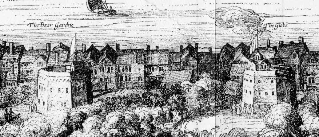 Ausschnitt einer Stadtansicht Londons aus dem Jahr 1616 von Nicholas Visscher / Detail of Nicholas Visscher's map of the City of London (1616), showing the Globe Theatre